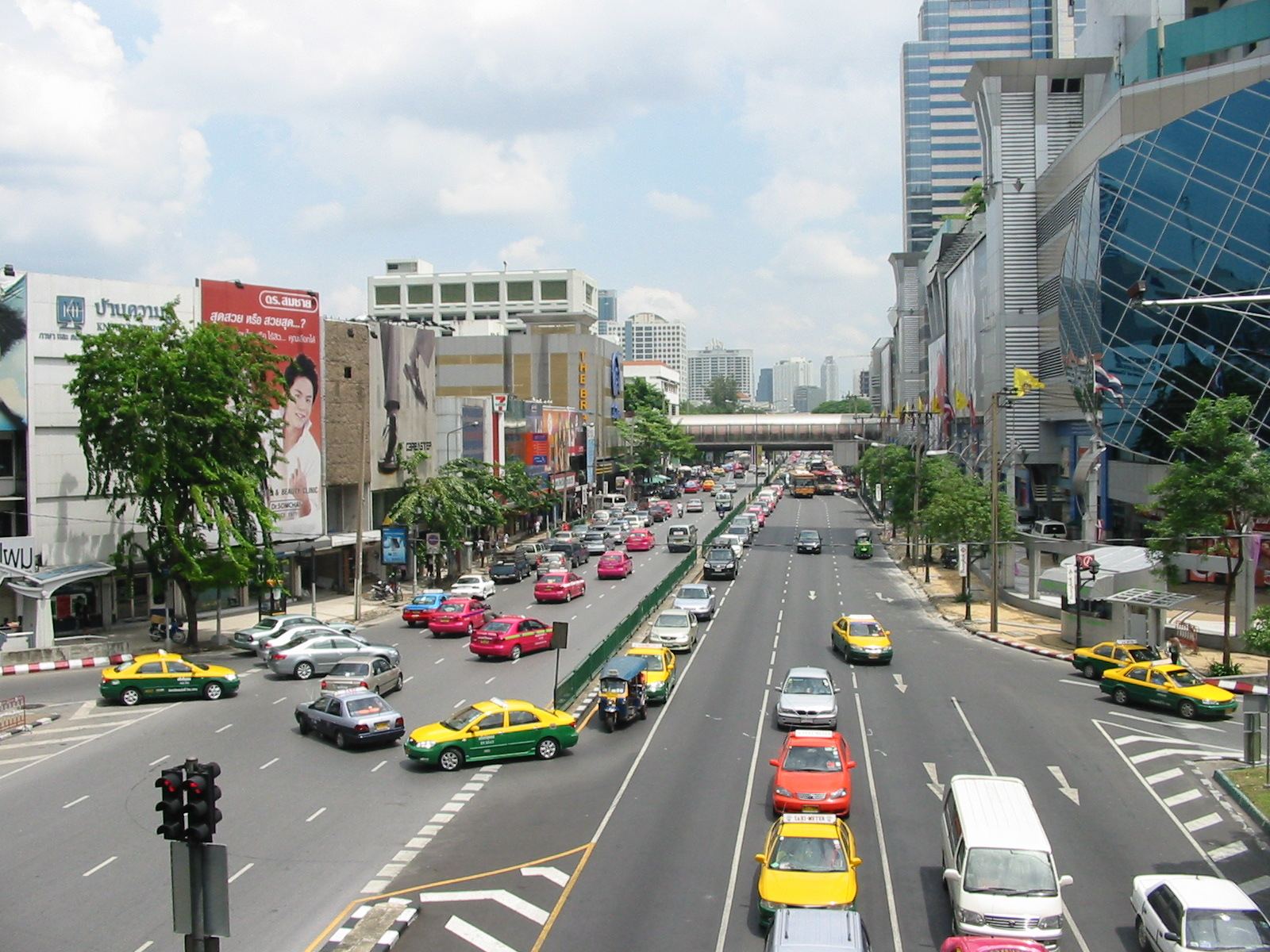 Thanon Phaya Thai